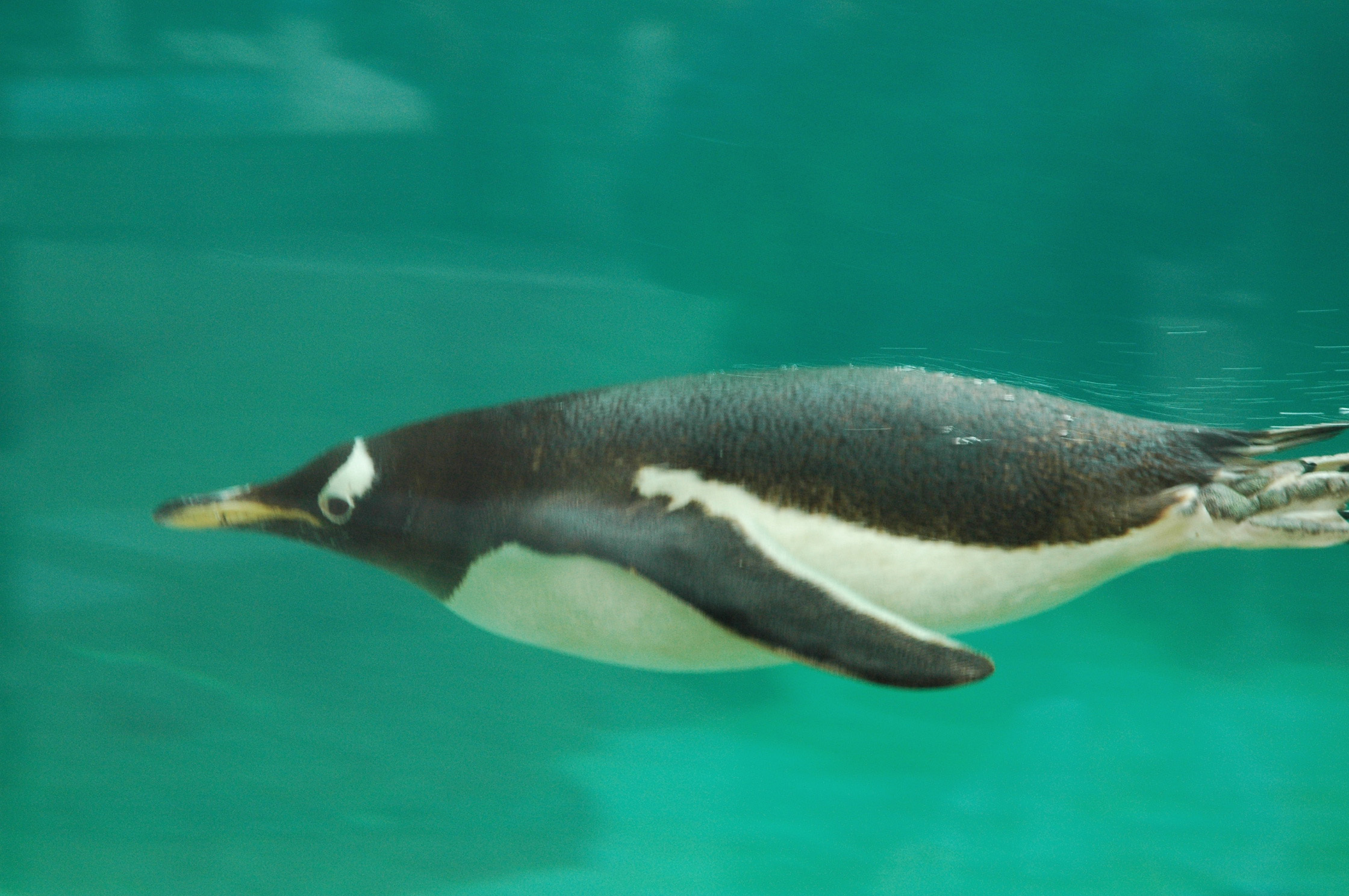 Penguin at the Aquvarium in Bergen